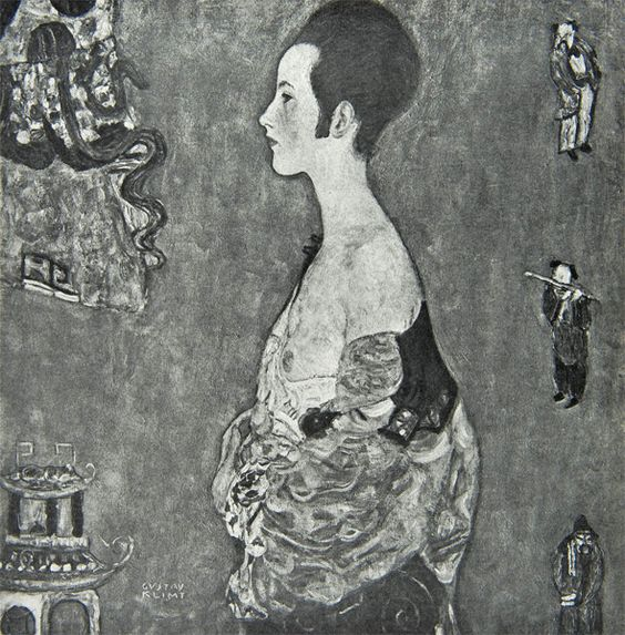 Bildnis der Wally